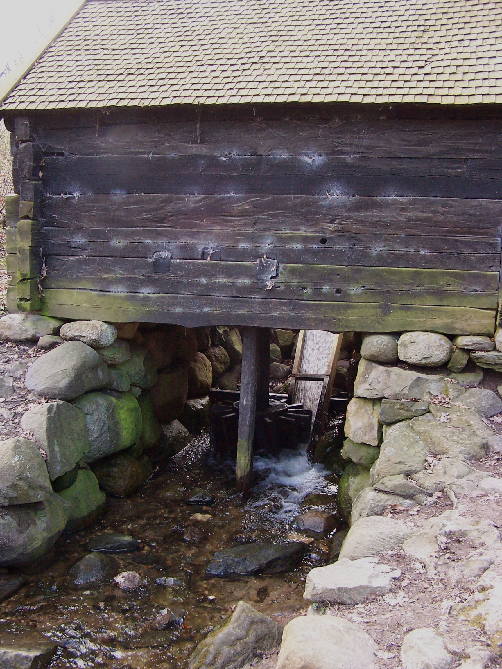 Splash mill from Småland, Sweden. In use until late 19th C. Picture taken in the Open Air Museum, Lyngby, Big Copenhagen, Denmark